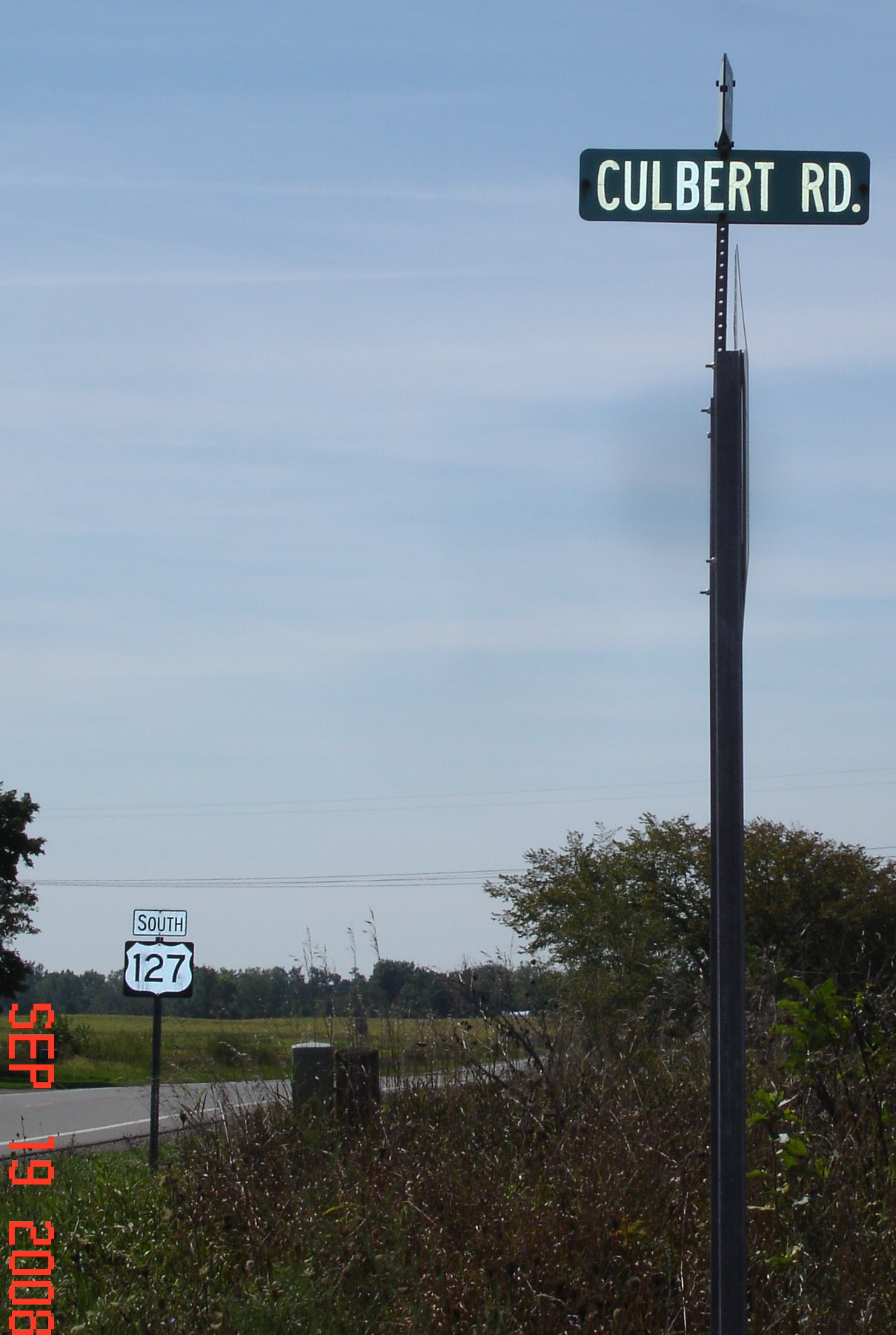 image of Culbert road sign